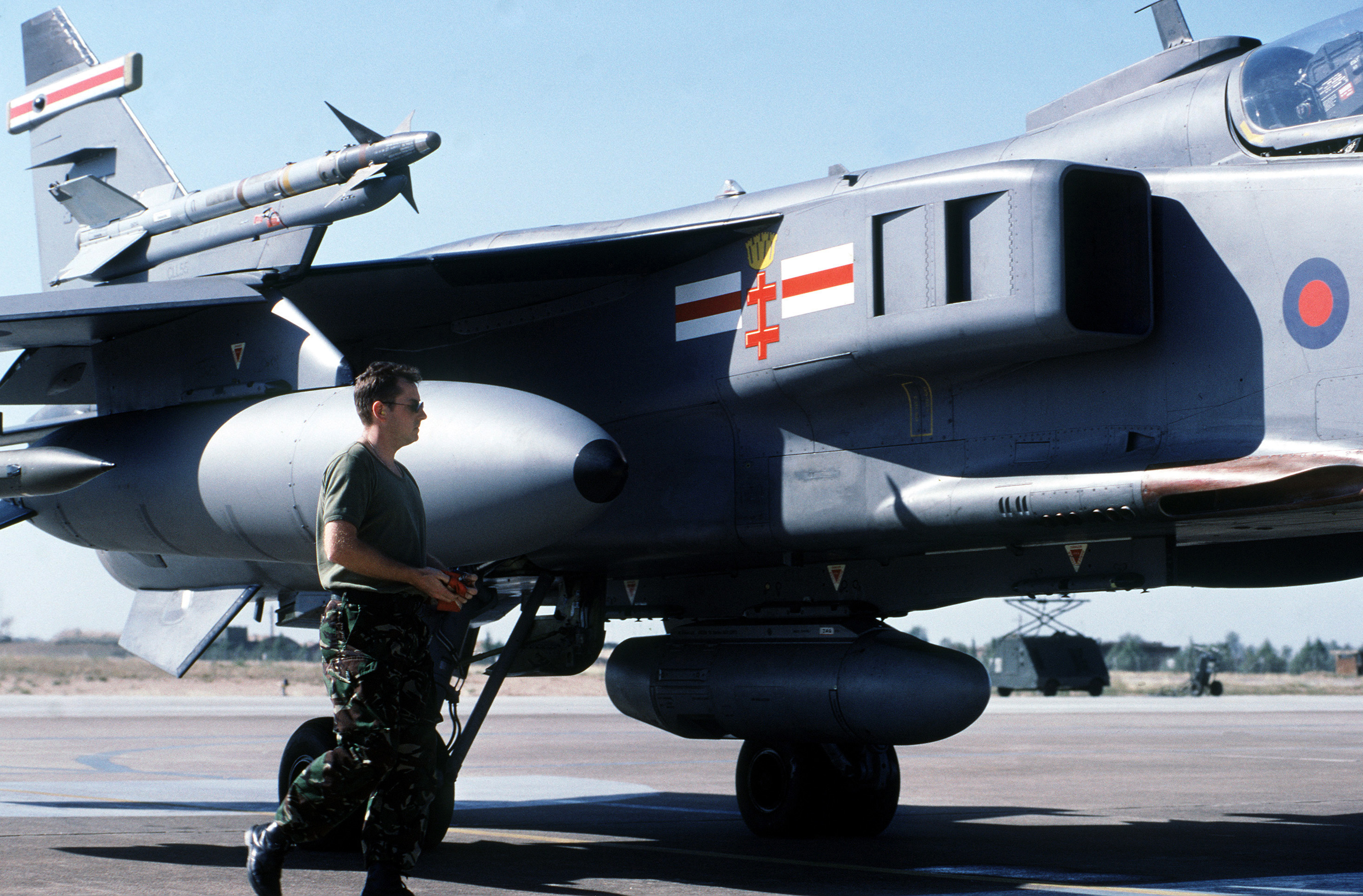 A Royal Air Force (RAF) airman prepares a British SEPECAT Jaguar GR3 of No. 41 Squadron (detached from its home base of RAF Coltishall) for a low-level reconnaissance mission during Operation Northern Watch over northern Iraq on 1 February 1999. An AIM-9L Sidewinder air-to-air missile is seen mounted on top of the starboard wing of the Jaguar.